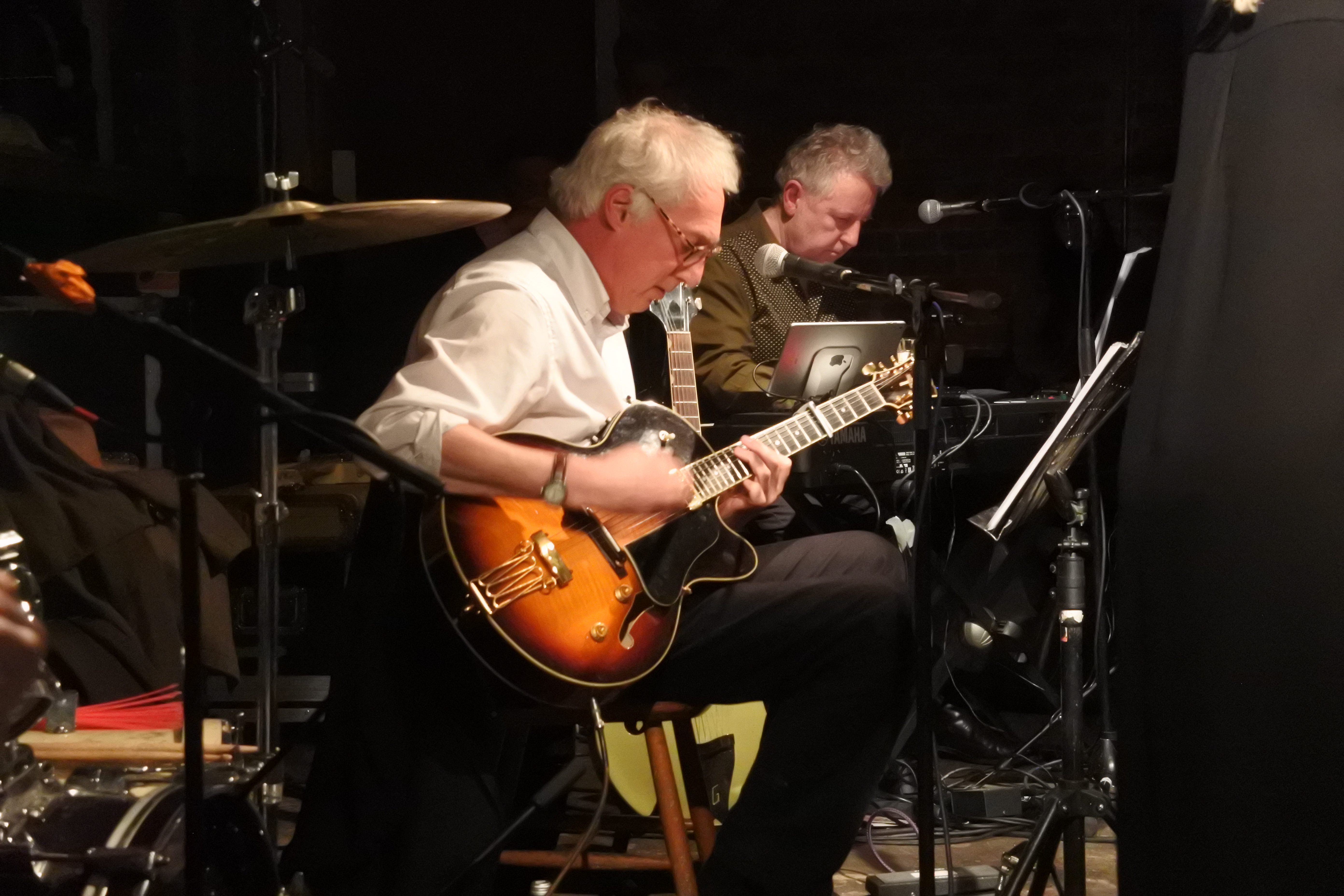 Peter Blegvad and Anthony Moore with Slapp Happy at Mt. Rainer Hall, Shibuya, Tokyo, 24 February 2017